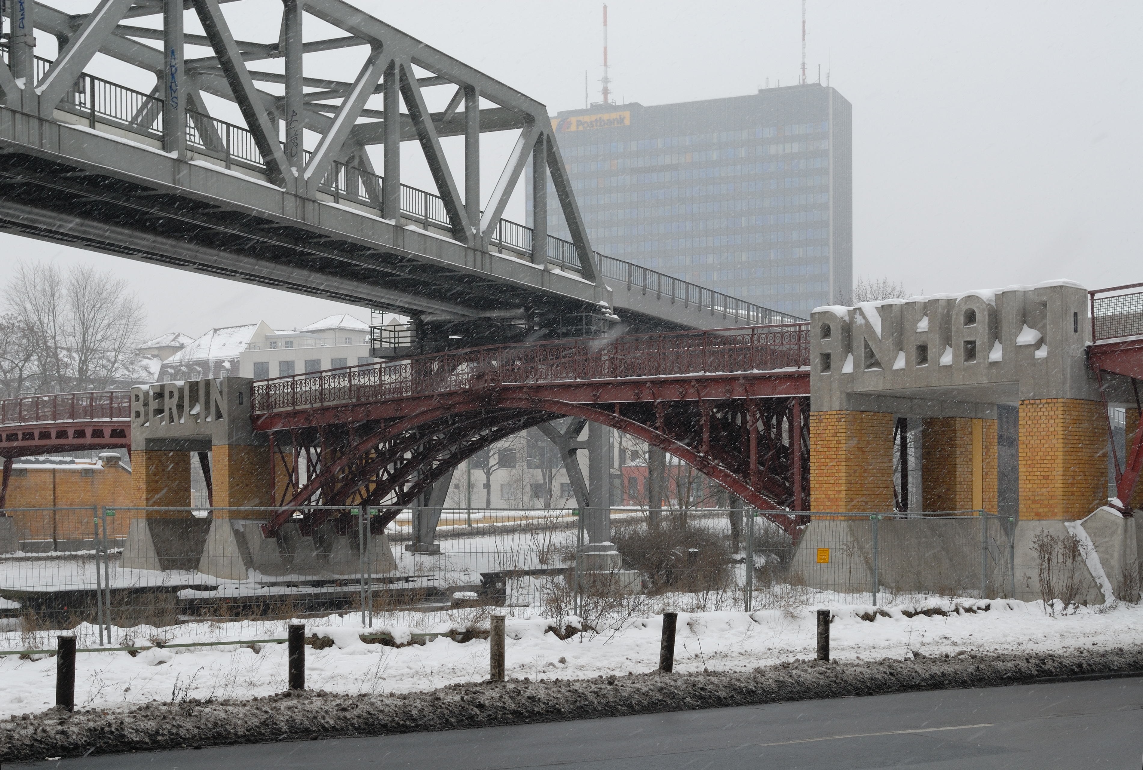 Anhalter Steg ("Anhalt bridge") across Landwehr Canal in winter. It is the replacement of a former railway bridge for the Berlin-Anhalt railway connection which was destroyed in WW II. Above the bridge there is a viaduct for the U1 line of Berlin U-Bahn.